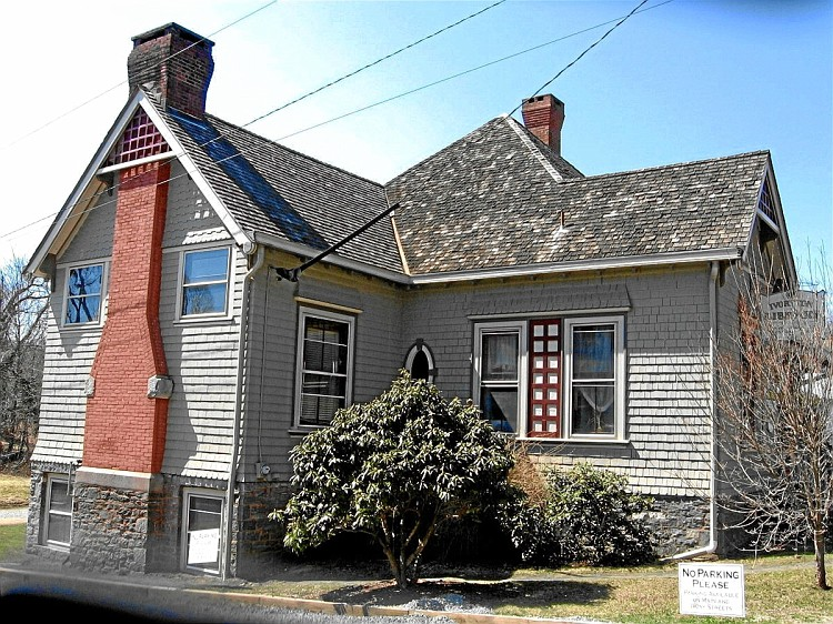 The Ivoryton Public Library, Ivoryton (Essex), Connecticut. Part of the Ivoryton Historic District.